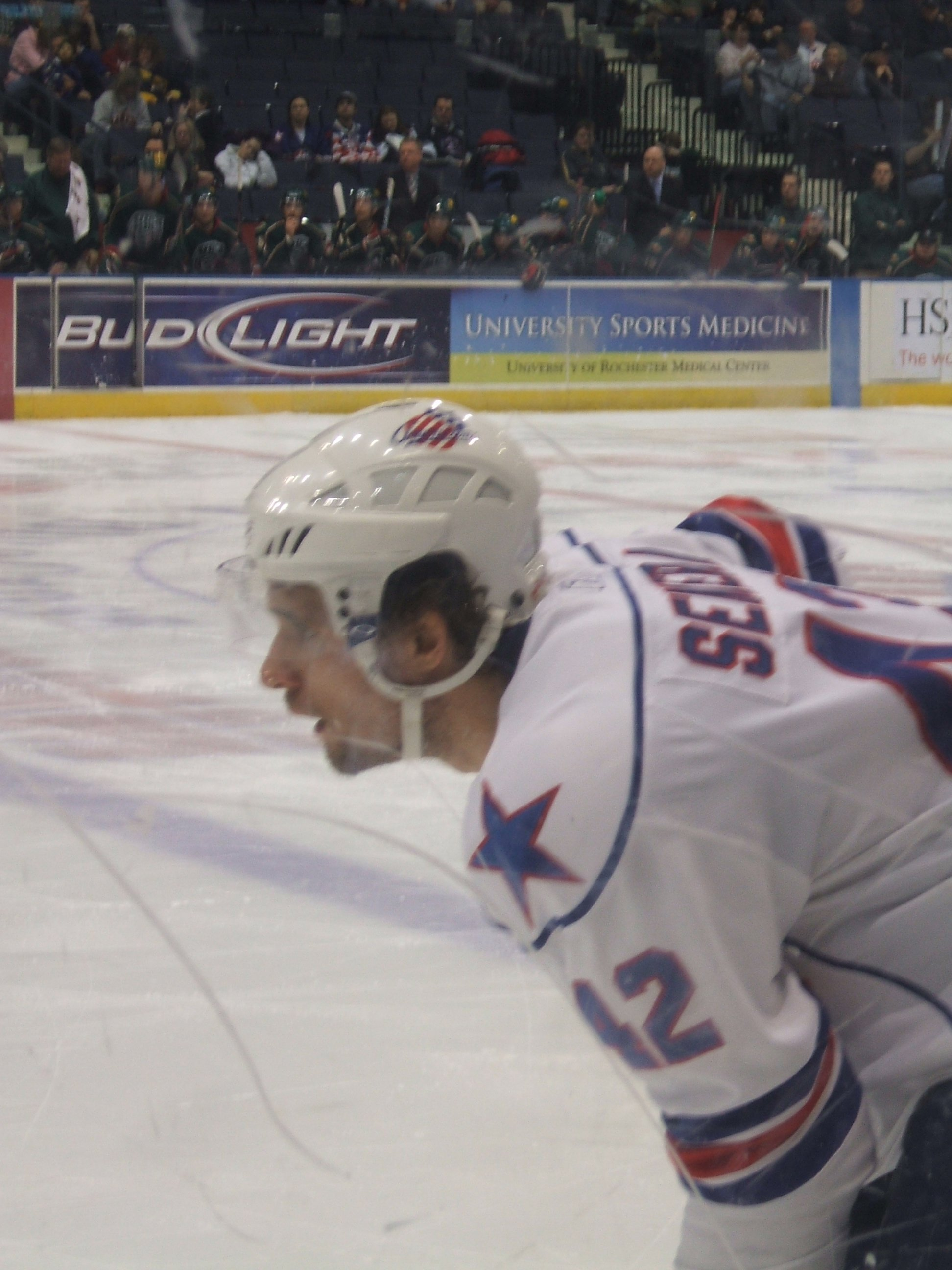 Photo of Slovak ice hockey player Andrej Sekera, Rochester Americans @ Blue Cross Arena